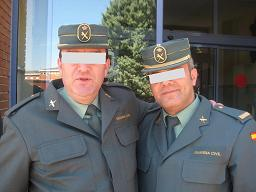 Dos Agentes de la Guardia Civil en la Academia de Guardias Jóvenes de Valdemoro (Madrid).